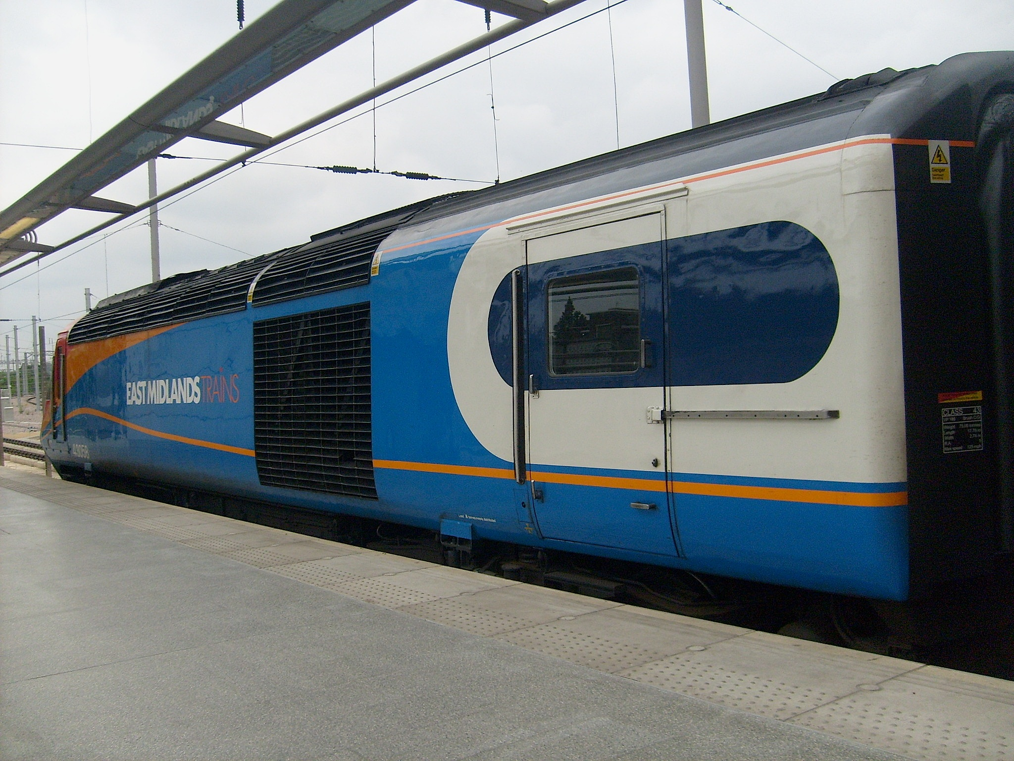 East Midlands Trains Class 43 Power Car No. 43058 at London St. Pancras